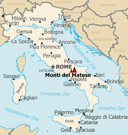 Position of the Italian mountainrange Monti del Matese